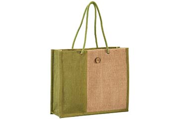 Jute, bag